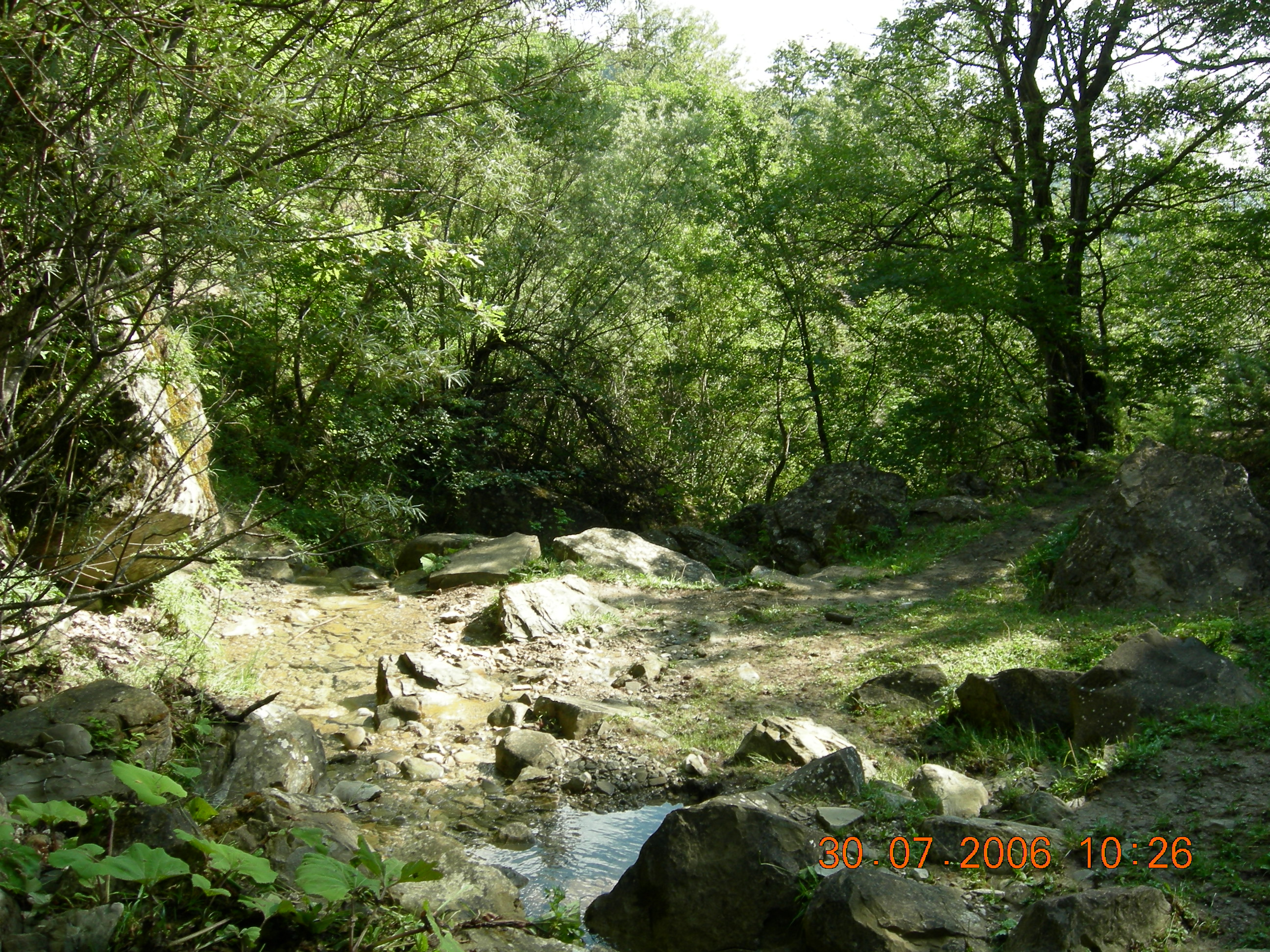 Stream in Alvi, hamlet of Crognaleto, in Italy.